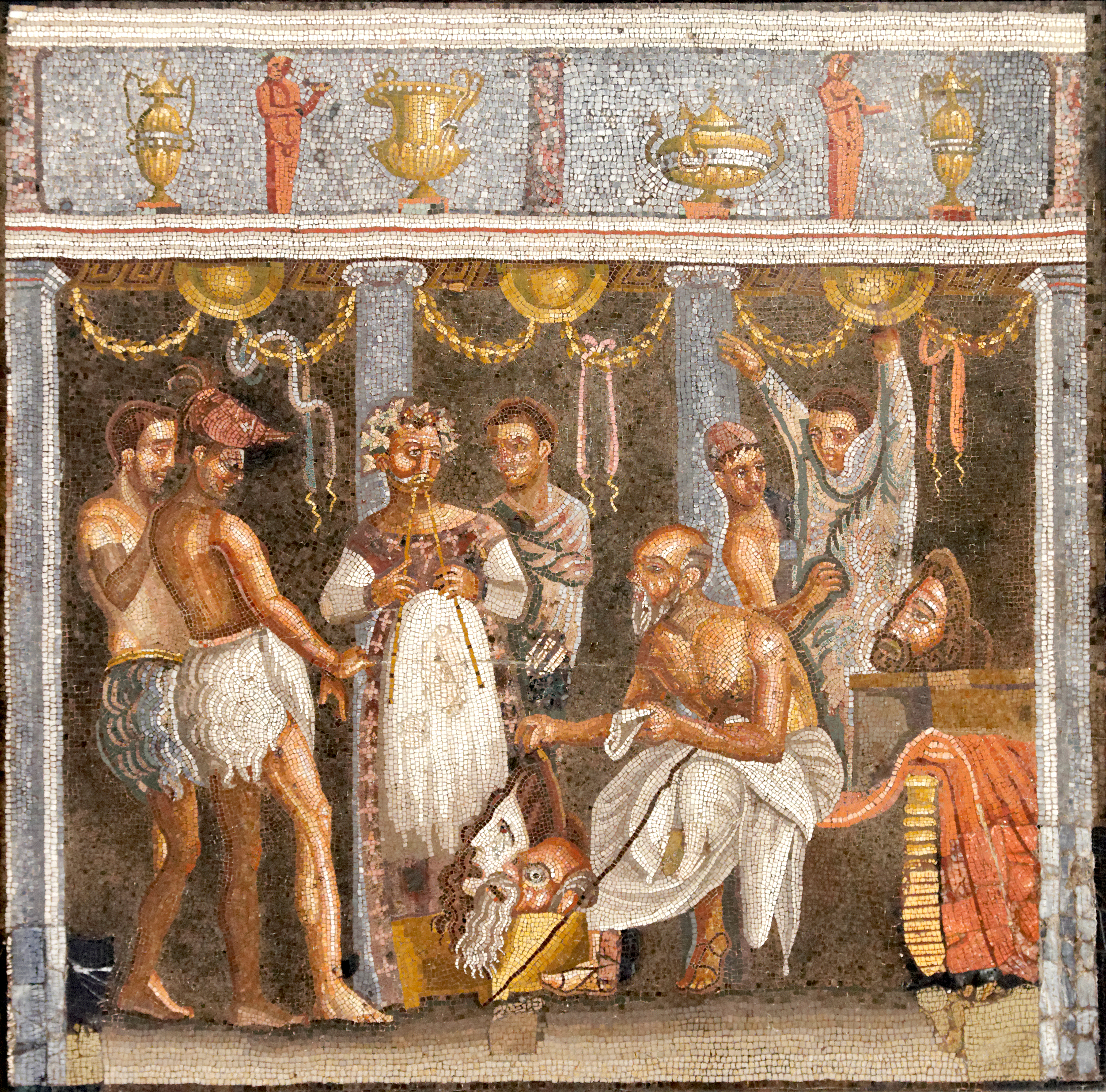 Choregos and actors, Roman mosaic.